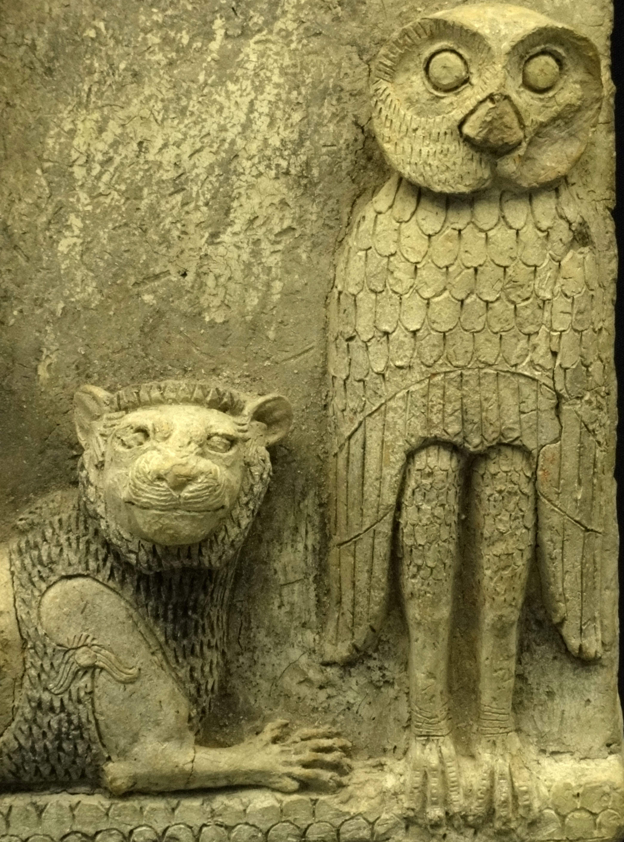 Detail of owl and lion on Burney Relief.